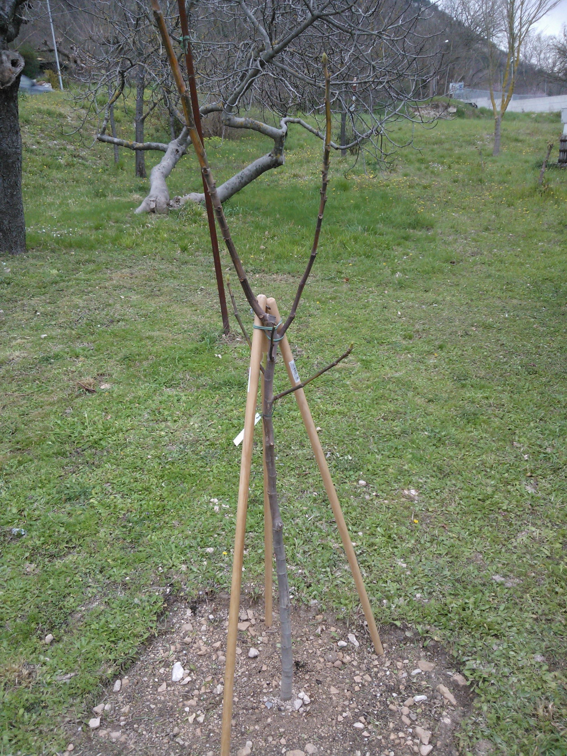 Plant Fig (Ficus carica) variety of colors (variegated) Panascè just planting correctly